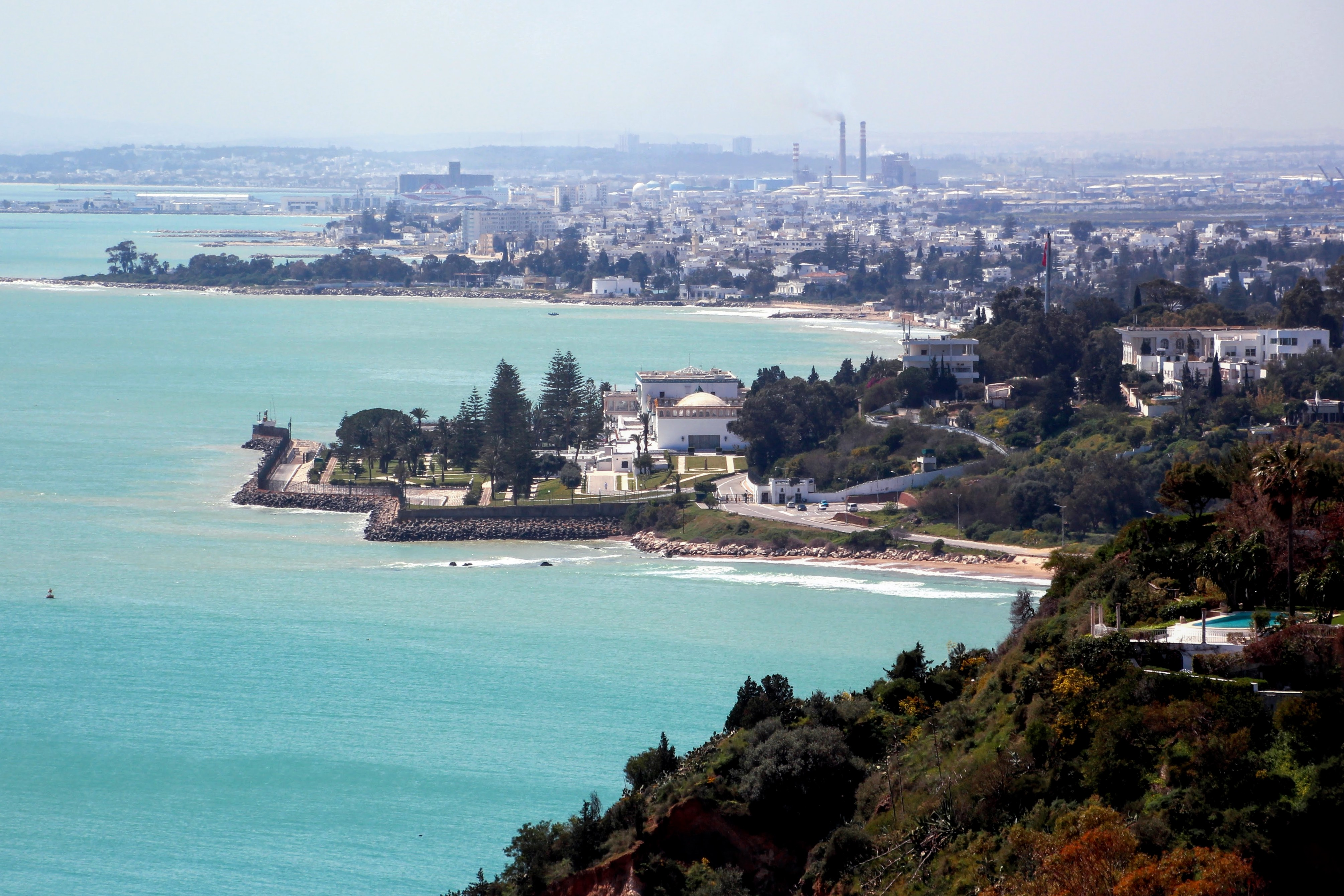 The Carthage Presidential Palace, Tunisia. Photo taken from Sidi Bou Said